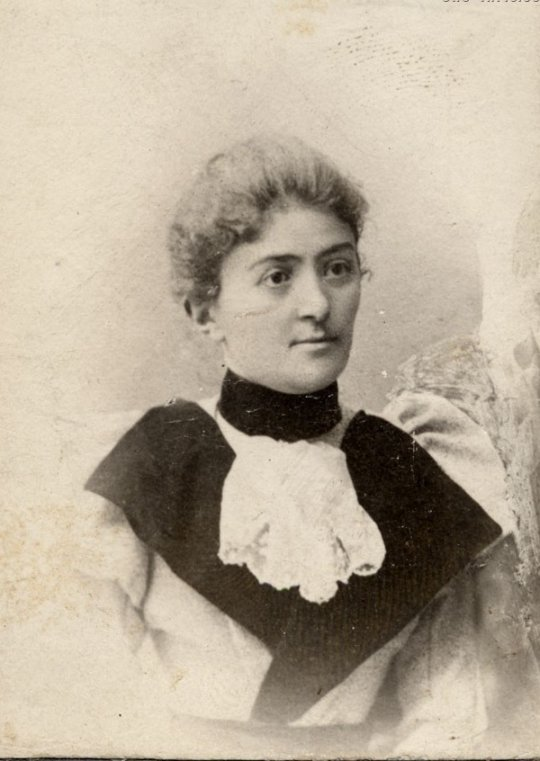 anastasia-eristav-khoshtaria